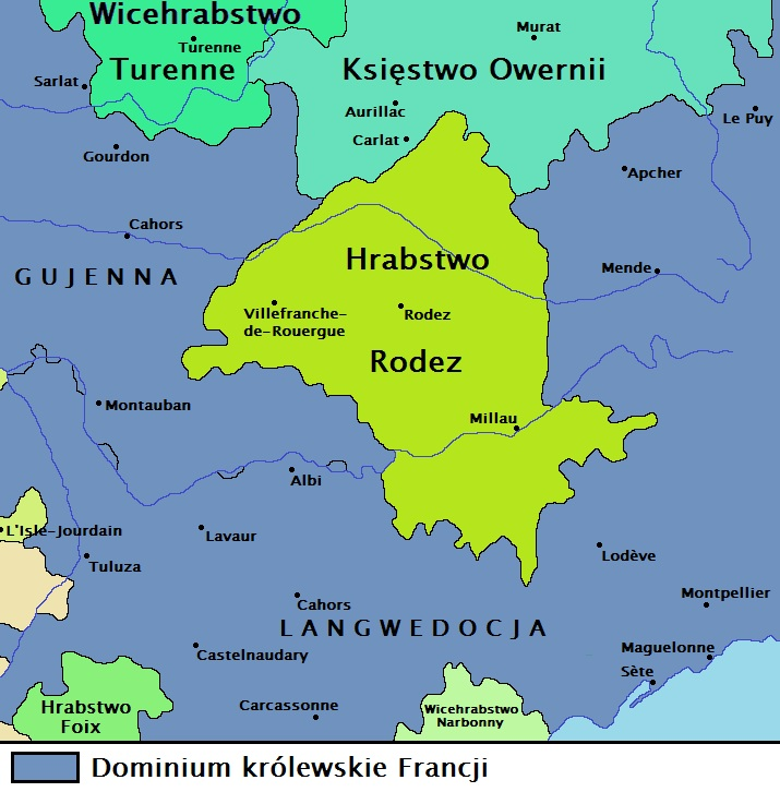 County of Rodez in 1477